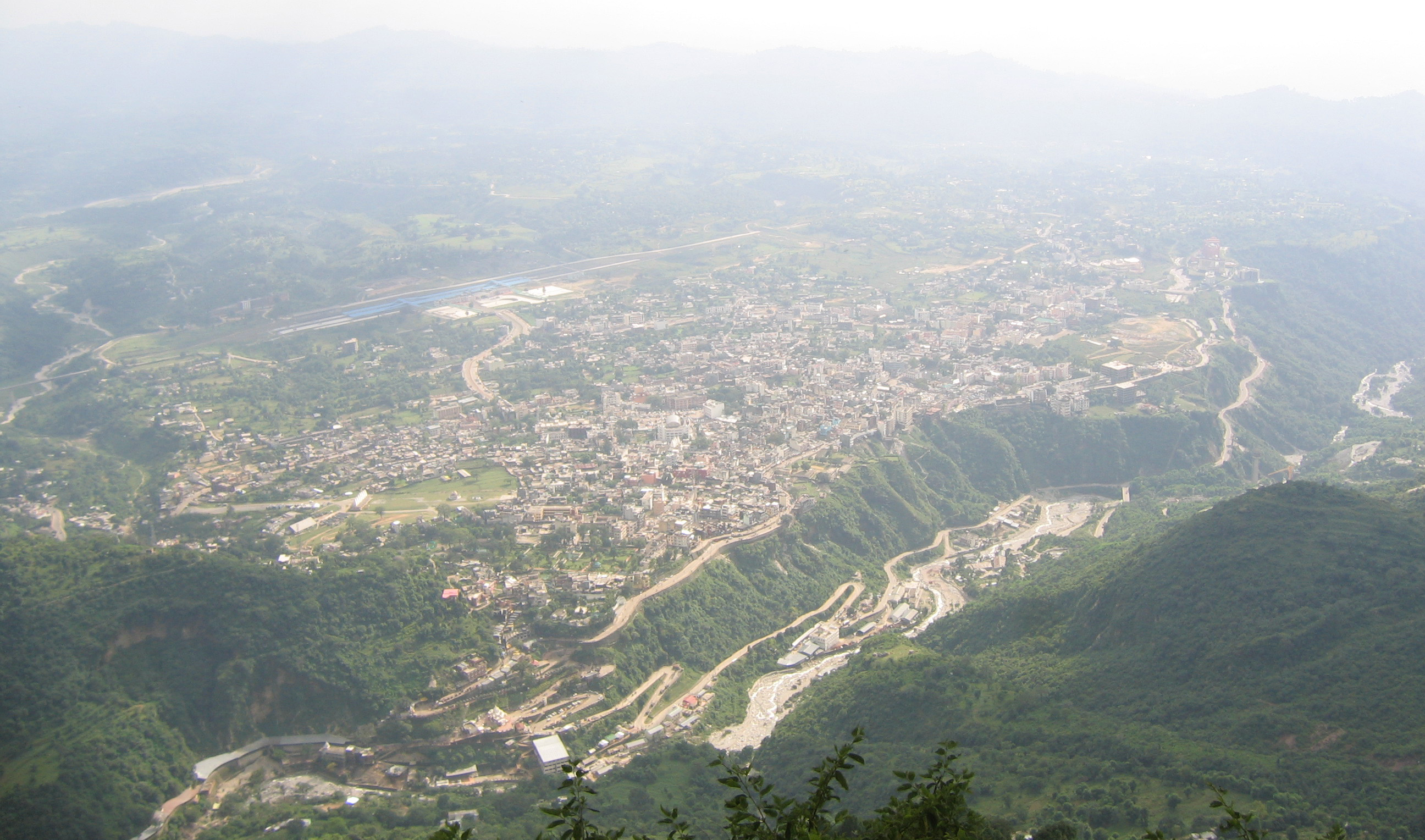 Katra - Vishnodevi